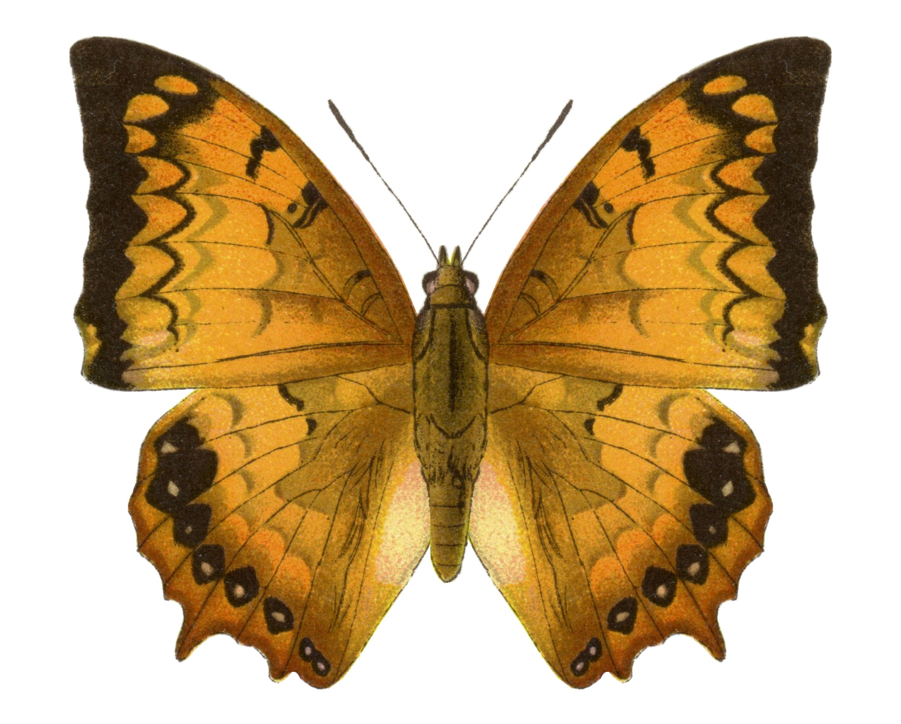 Adalbert Seitz Ed. Die Großschmetterlinge der Erde Band 9: Abt. 2, Die exotischen Großschmetterlinge, Die indo-australischen Tagfalter, [1927] text, 1197 Seiten 177 Tafeln Verlag Alfred Kernen, Stuttgart Taf 136 See The Global Lepidoptera Names Index for valid names Charaxes kahruba (Moore, [1895])